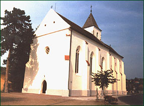 Kőröshegy, Szent Kereszt római katolikus templom